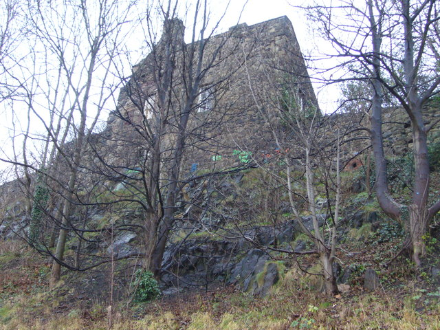 Lochend House. An early 19th-century villa, built to replace the ruined remains of the tower house of the Logans of Restalrig. It is now used by the City Council's Social Work Department as a children's centre.